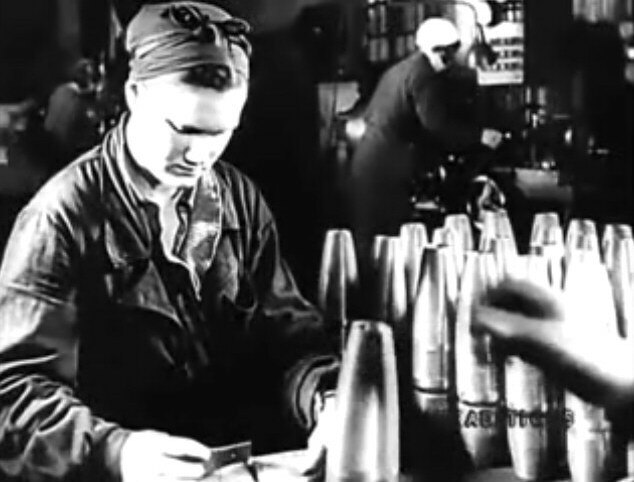 Still from Moscow Strikes Back, Soviet documentary of the Battle of Moscow. Directed by Ilya Kopalin. 1 of 4 films to win the 1943 Academy Award for Best Documentary.